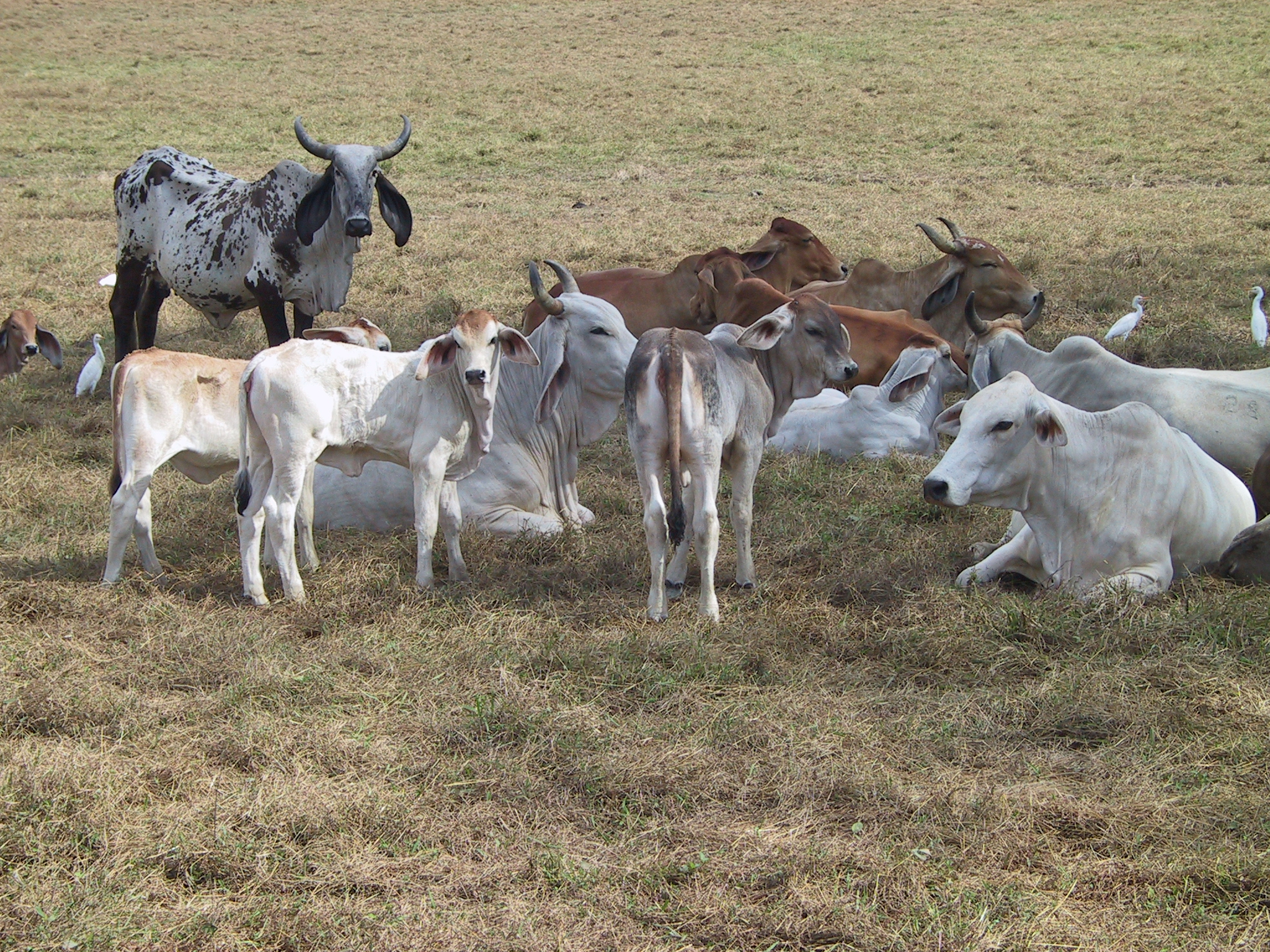 Description: Brahman cattle, Costa Rica, pacific side Source: self made Date: 2002-20-03 Author = --Ruestz 21:26, 17 April 2006 (UTC)